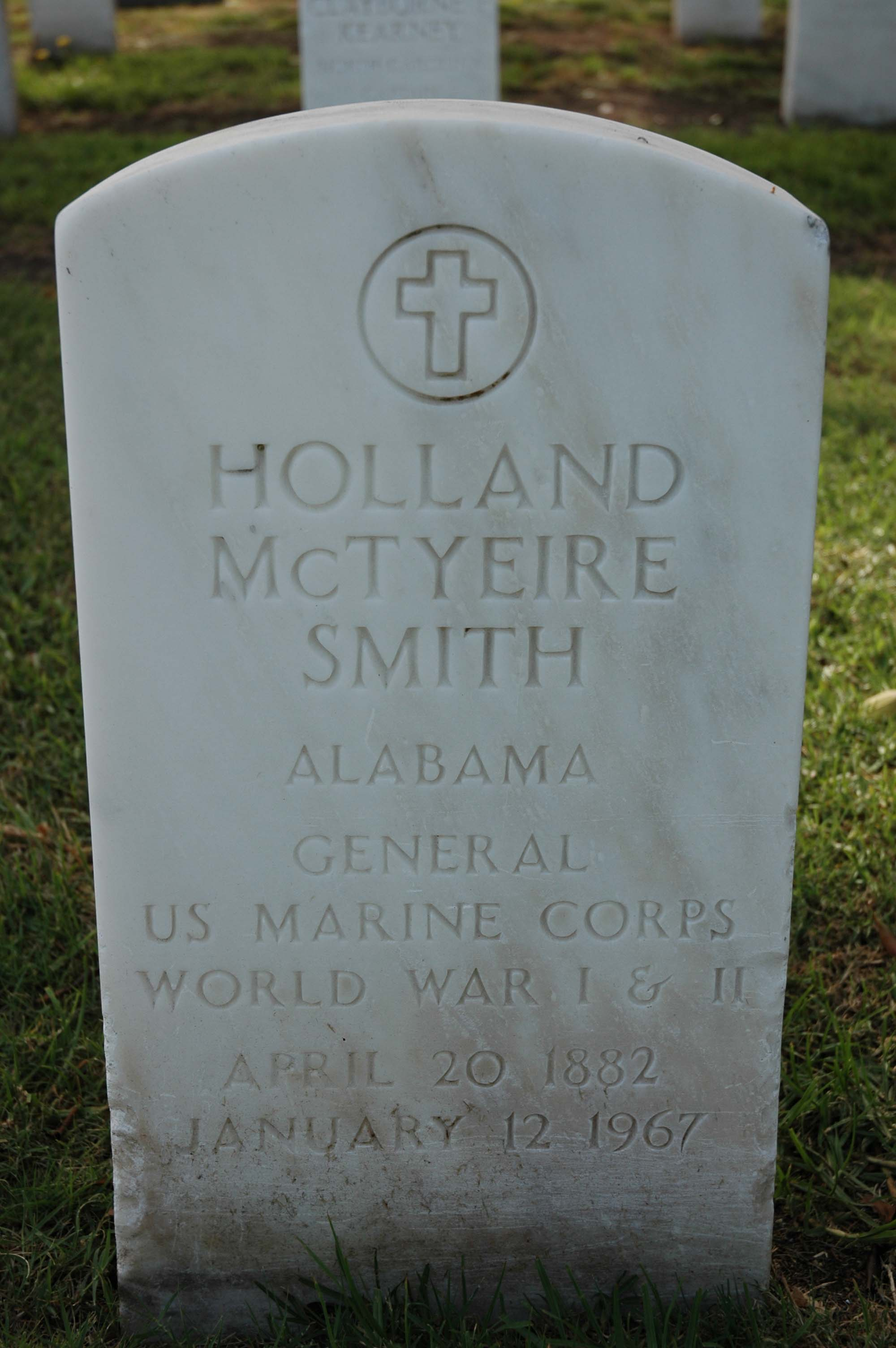 Resting �off-site� at Section A, Grave 279, at Fort Rosecrans National Cemetery in San Diego, is Gen. Holland �Howlin� Mad� Smith, commander of Marine forces during the battle of Iwo Jima and viewed by many as the father of Marine Corps amphibious warfare. Smith�s grave is located somewhat inconspicuously near the USS Bennington Monument.